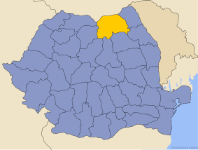 Location of Suceava County in Romania.